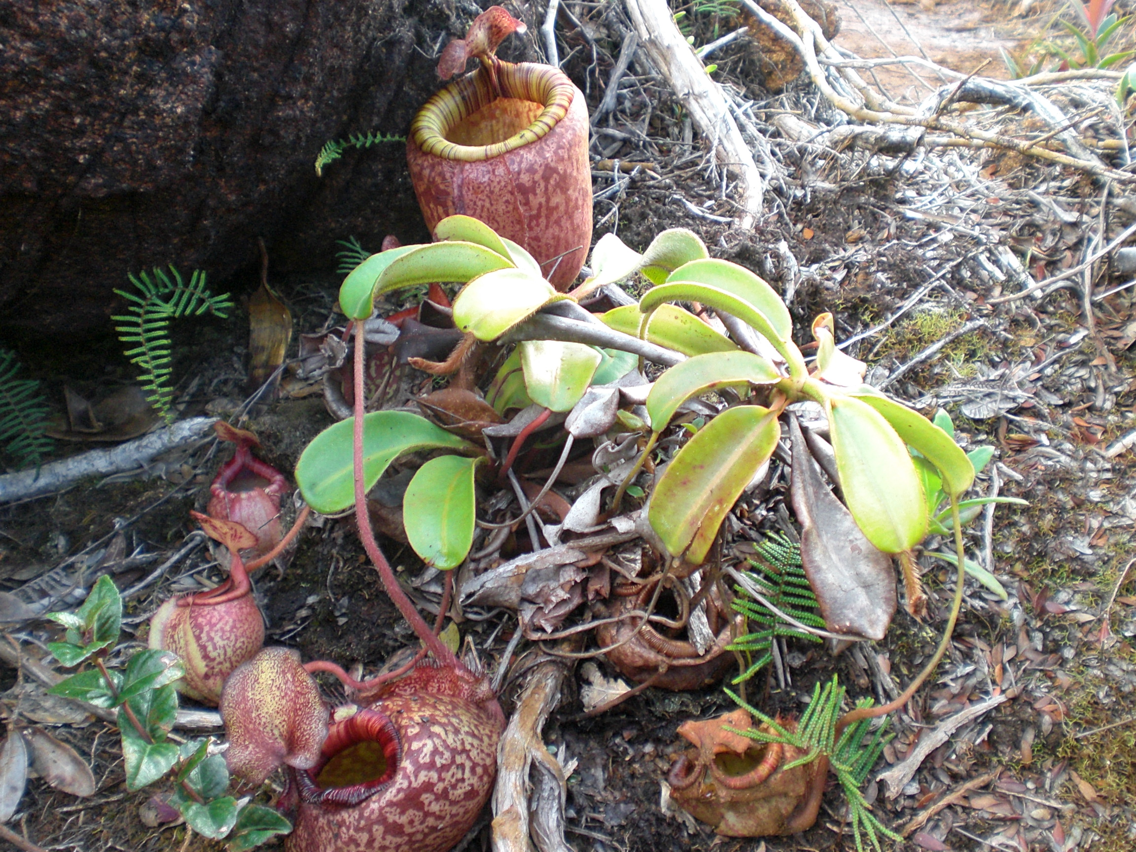 Pitcher plant (Nepenthes sp.) found in Mount Hamiguitan Range, San Isidro, Davao Oriental. Taken from Nov 29-Dec 1, 2009)